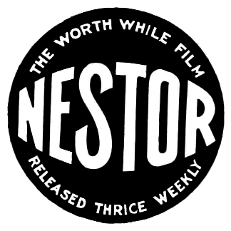 Logo for the Nestor Film Company